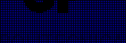 blue channel of bayer image